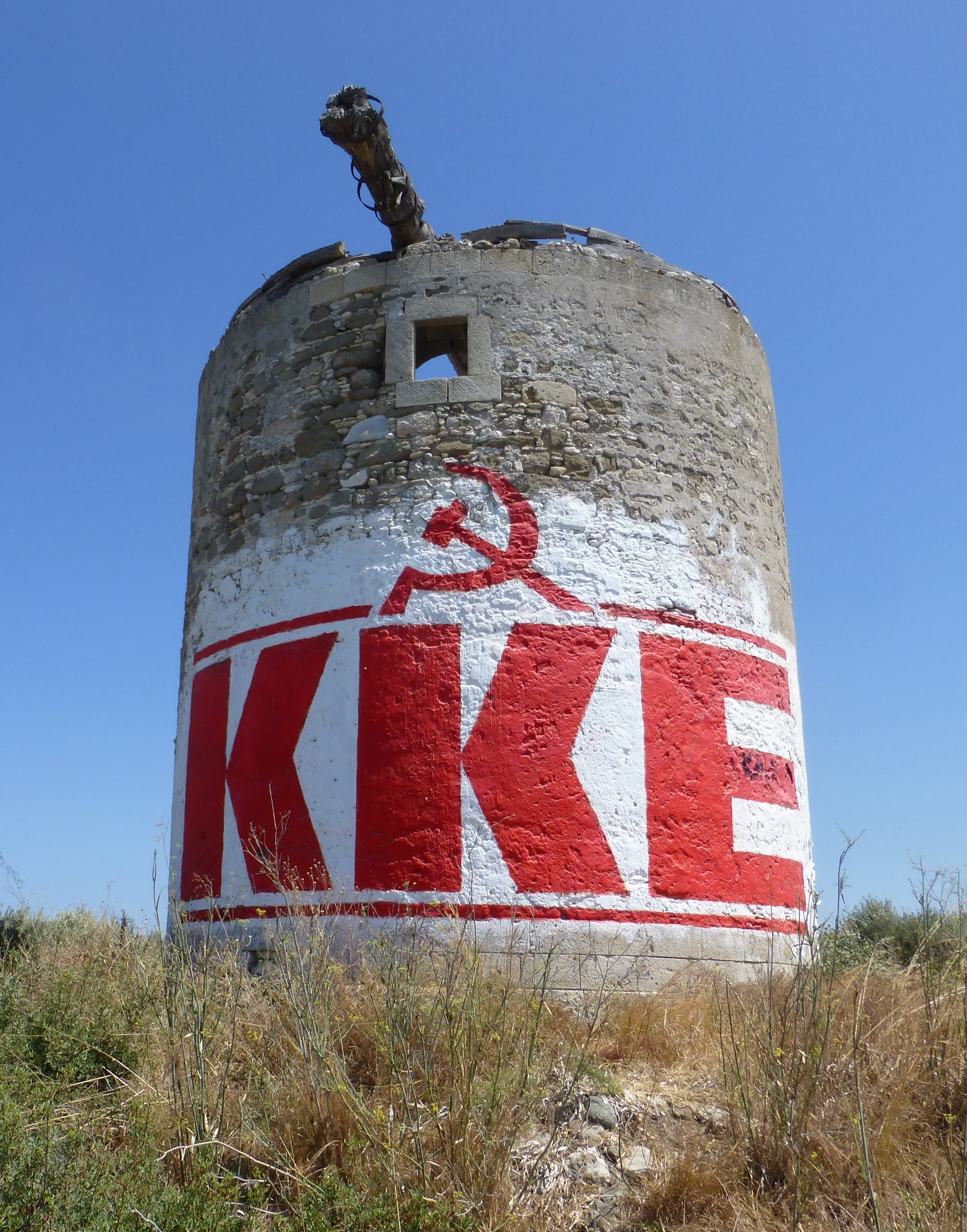 Windmill tower near the power station Soroni, Rodos Greece bearing the insignia KKE Kommounistikó Kómma Elládas